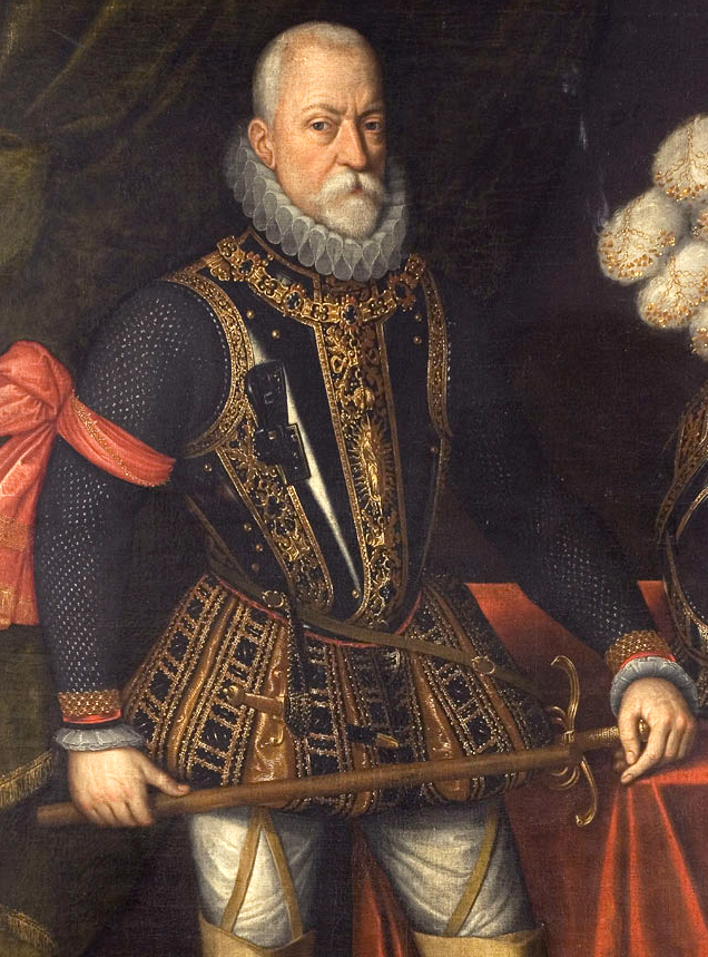 Peter Ernst, Count of Mansfeld-Vorderort.